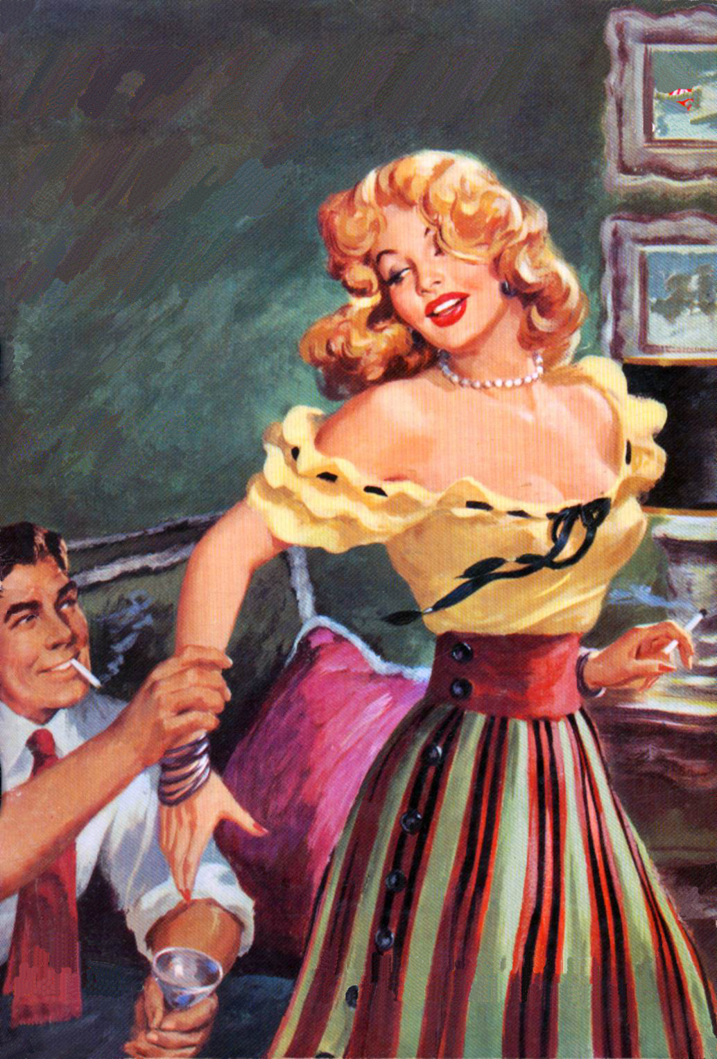 This painting by an American Artist appeared for the book cover of 'Her Candle Burns Hot'. Its Gouache on board.